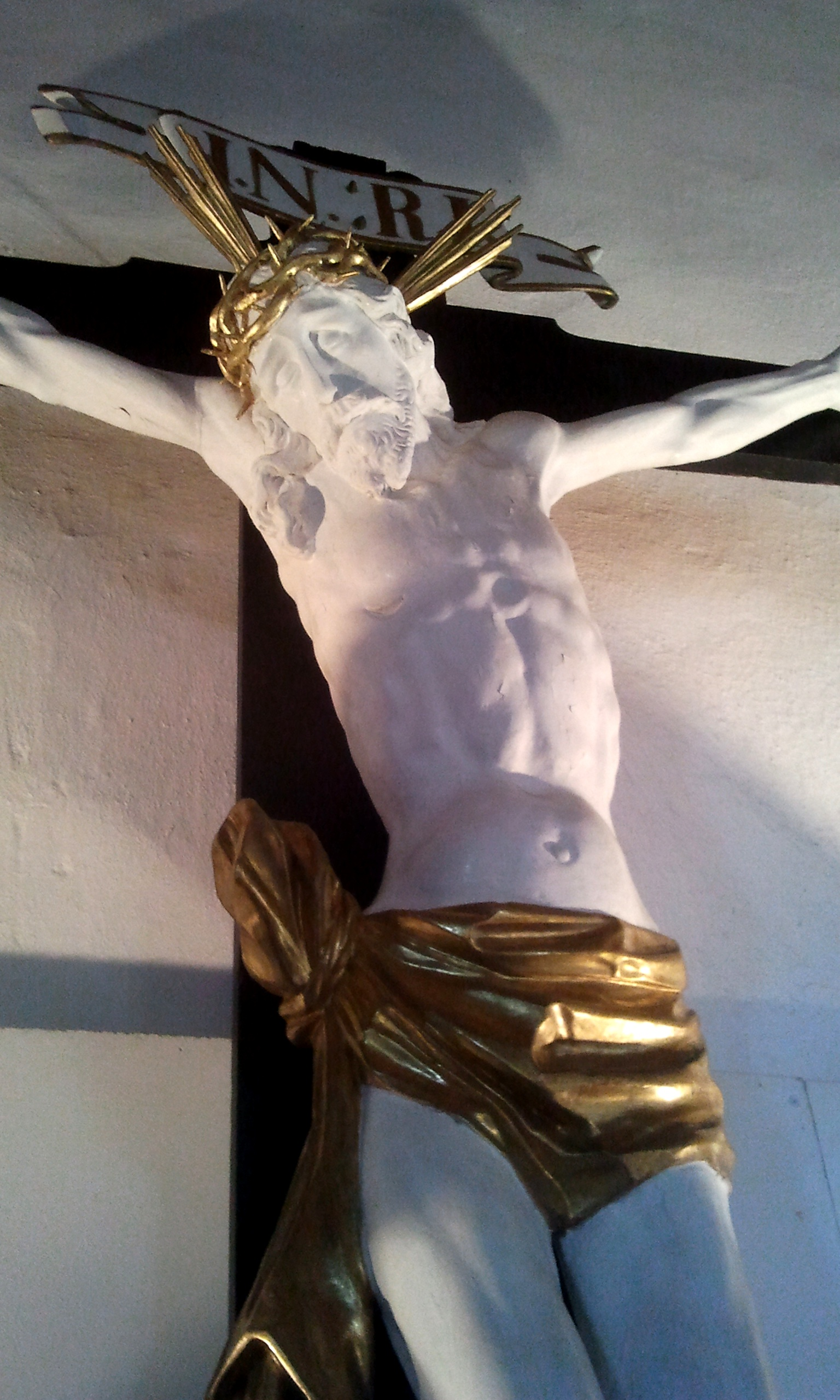 Crucifixion in the interior of Holy Trinity Church in Valašské Meziříčí, after 1698.